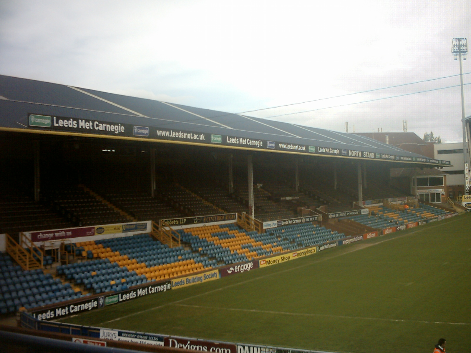 The North Stand on the rugby side of Headingley Stadium, Headingley, Leeds, West Yorkshire, UK. Taken during a Yorkshire Vs Gloucestershire one day cricket match on the afternoon of the 3rd May 2009.